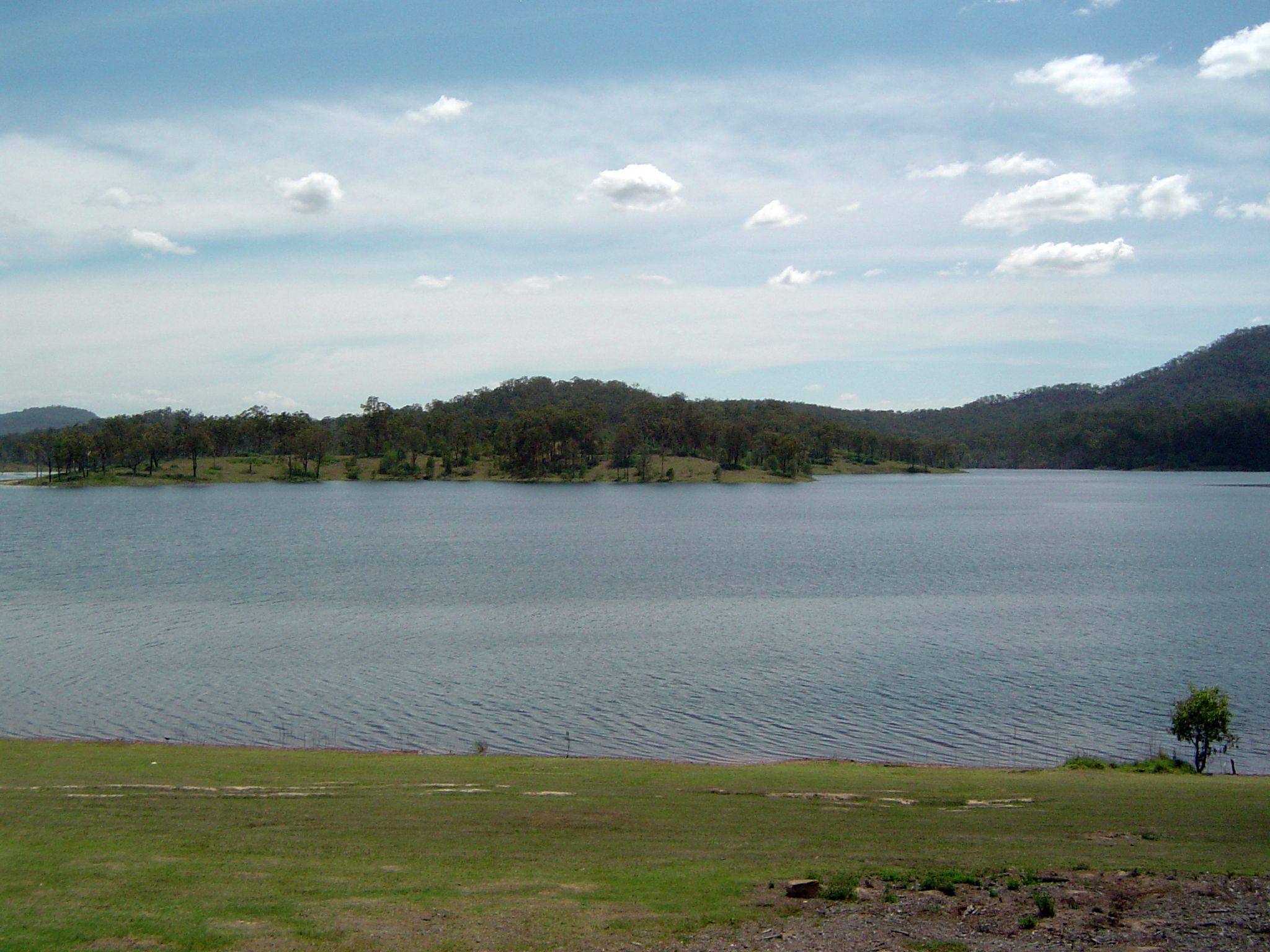 Wyaralong Dam near Beaudesert, Queensland, Australia.